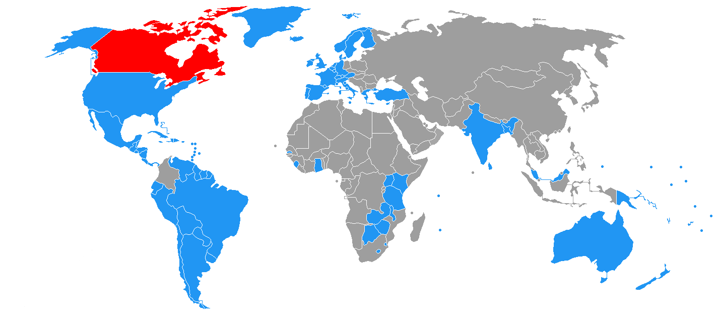 Visa policy of Canada on March 1978